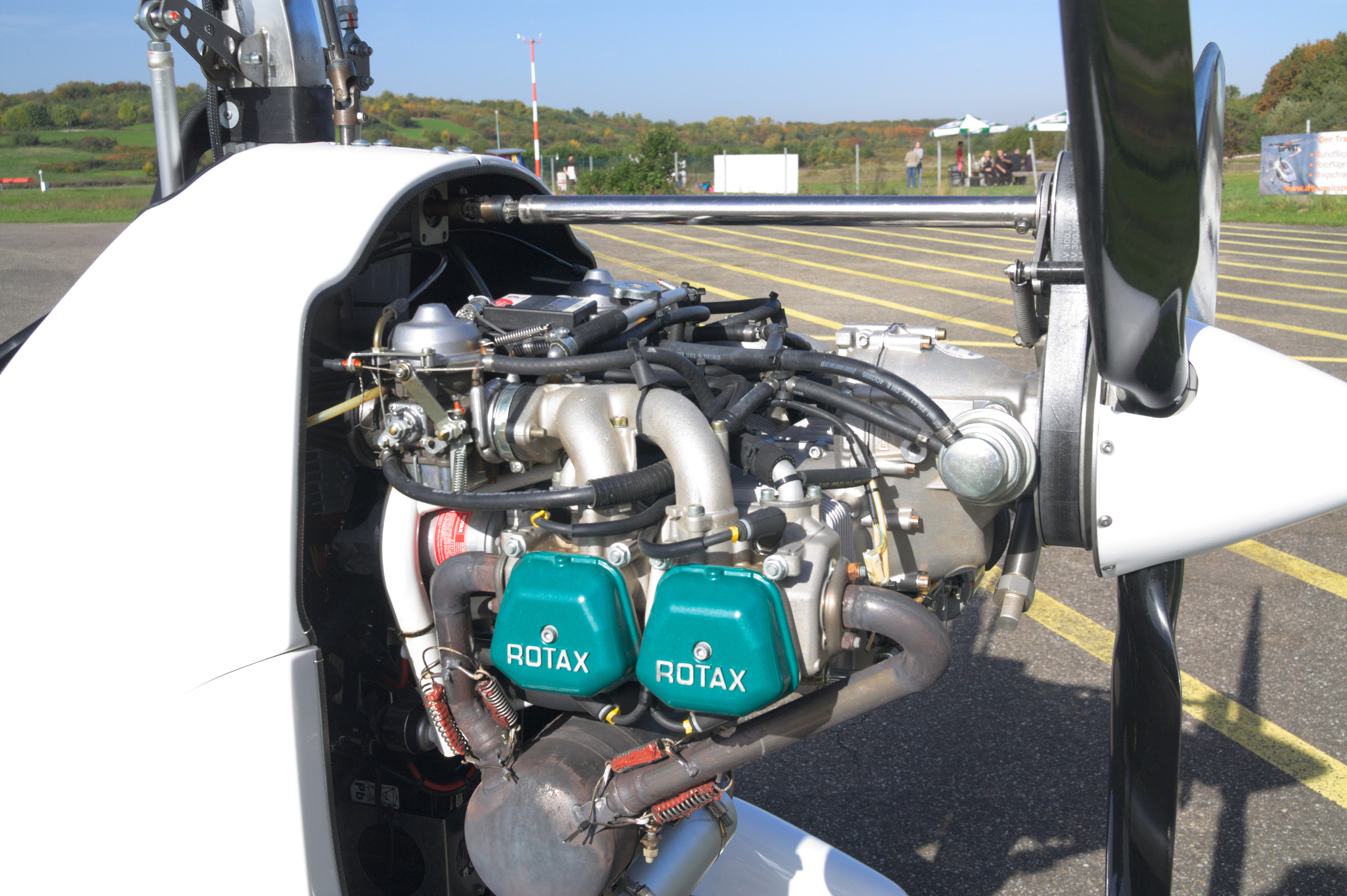 Making of photo flight: autogyro (engine)